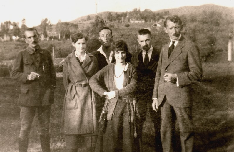 Yevhen Konovalets in Vorokhta.